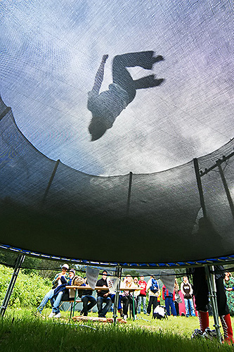 Person on trampoline at the Riddu Riđđu festival in Kåfjord, Norway